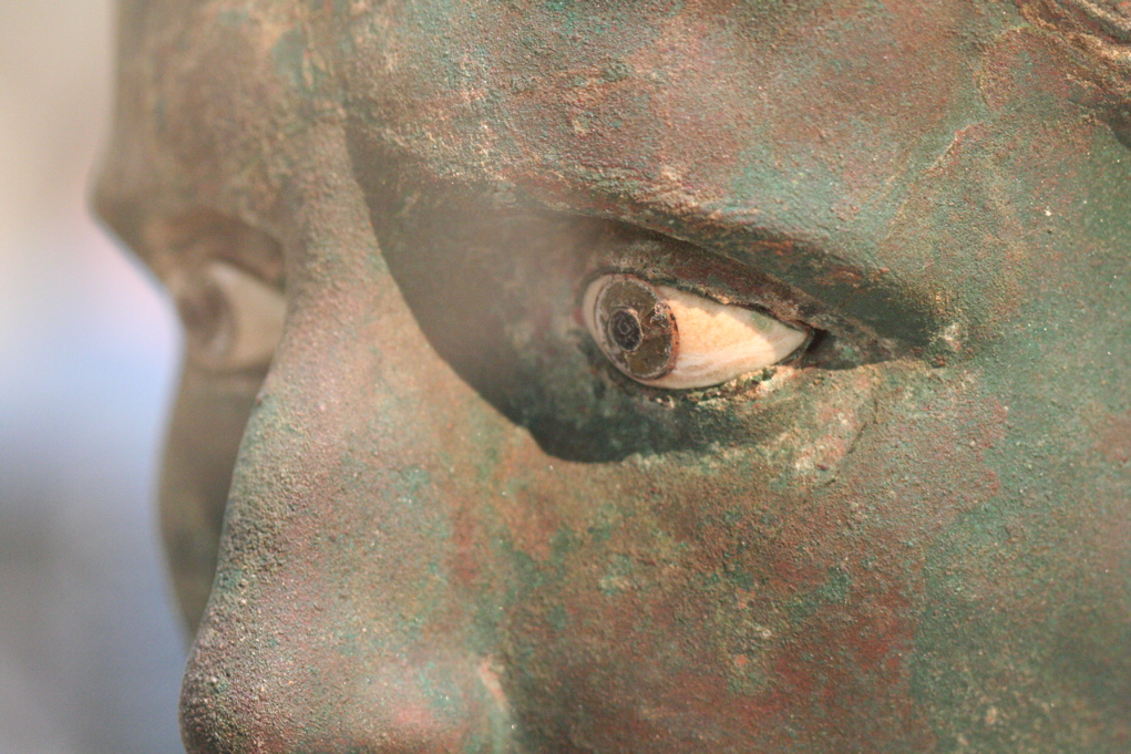 Head of Augustus, Meroë, Sudan, about about 27-25 BC. I had a wonderful day at the British Museum with CoryQ (of MonkeyRiverTown) and his wife Mary. These are everything I shot that day, unedited and uncleaned, except for shrinking them some to spead up the upload.